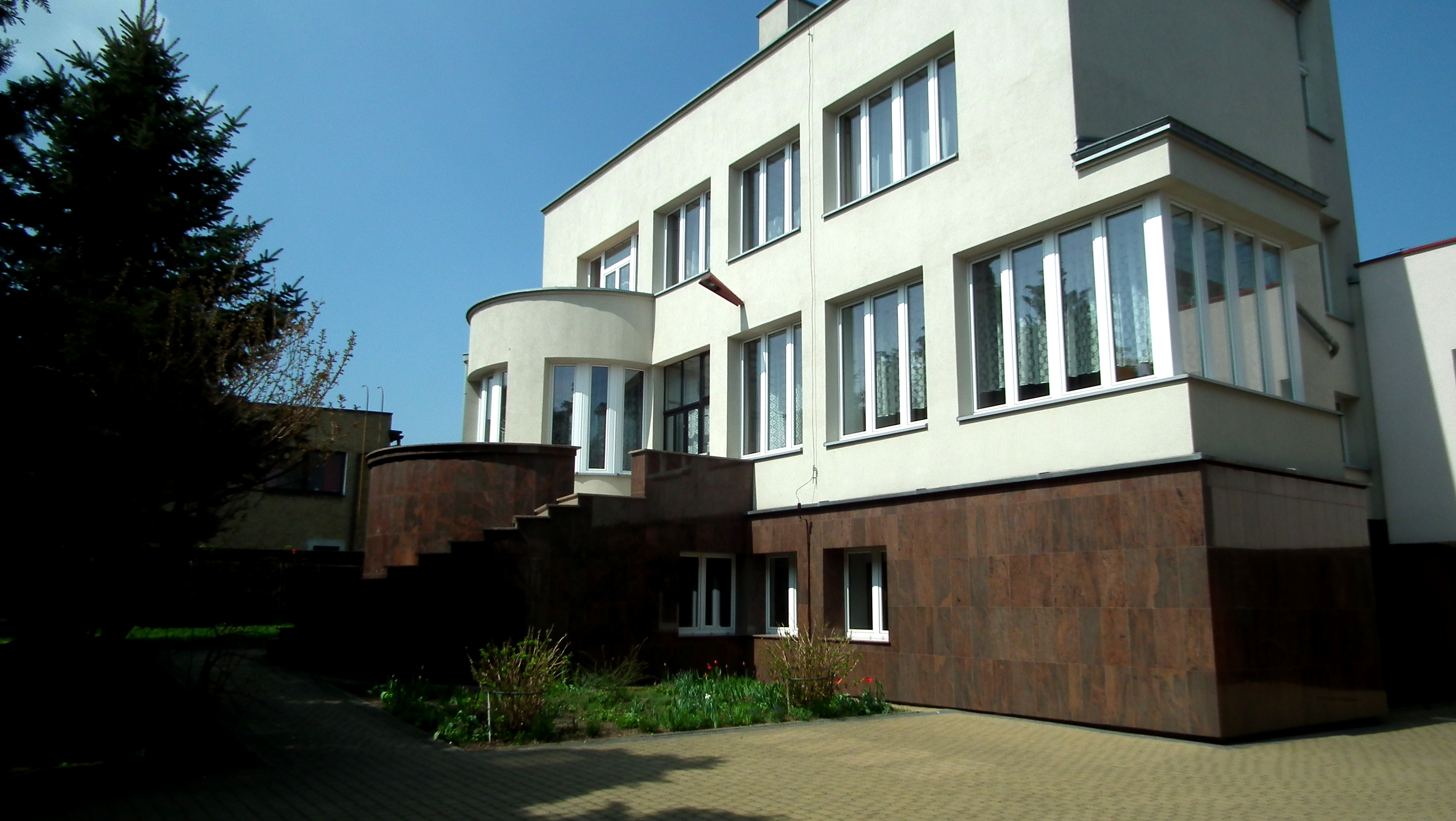 The State School of Music in Jastrzębie-Zdrój